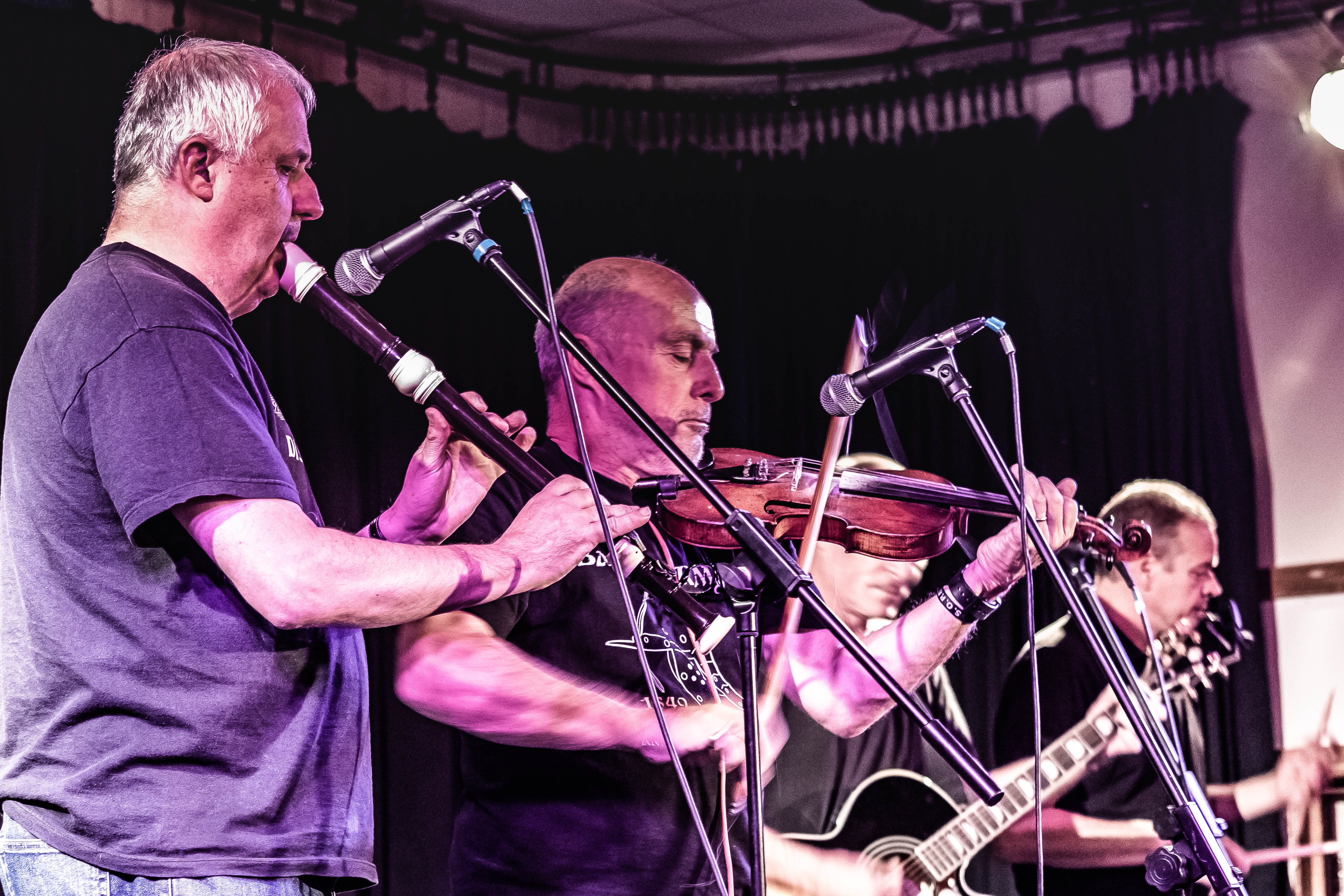 Performance at calstock 14th September 2018 with his band Barnstormer 1649, of his album Restoration Tragedy